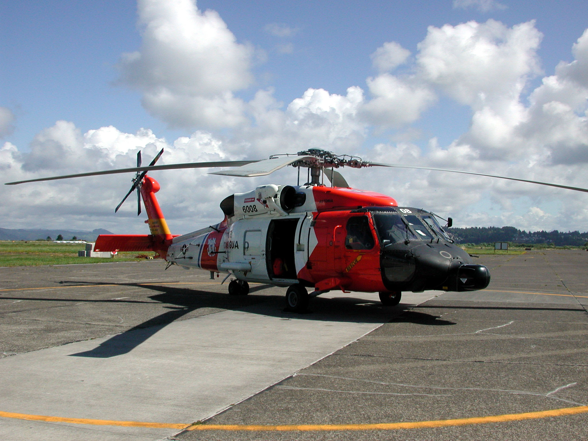 Sikorsky HH-60J JAYHAWK helicopter, USCG registration number 6008, at Coast Guard Air Station Astoria, Astoria, Oregon, United States.